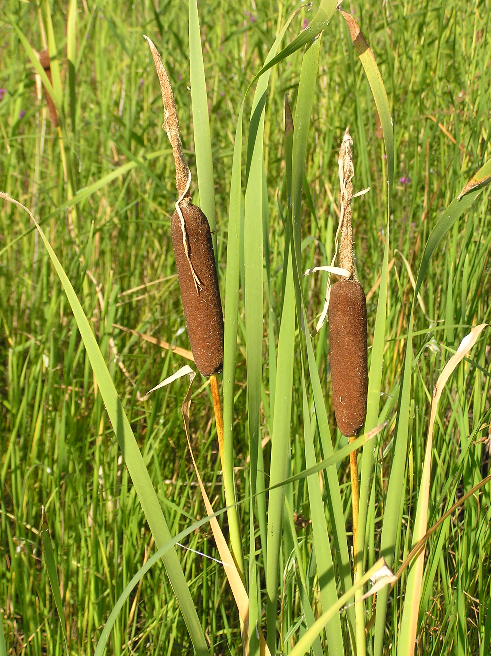 Typha intermedia Schur, inflorescence/fruits. Habitat: riparian meadow; Volgograd Reservoir. Vicinity of Saratov city, Russia.